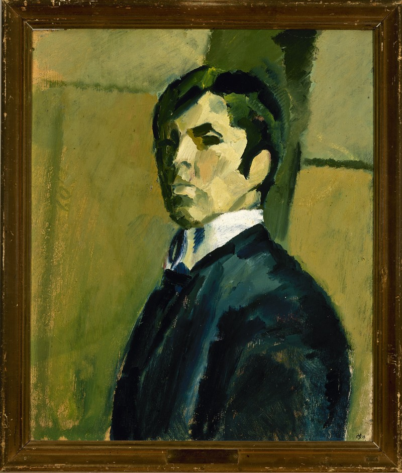 Self-portrait by Danish modernist painter Harald Giersing